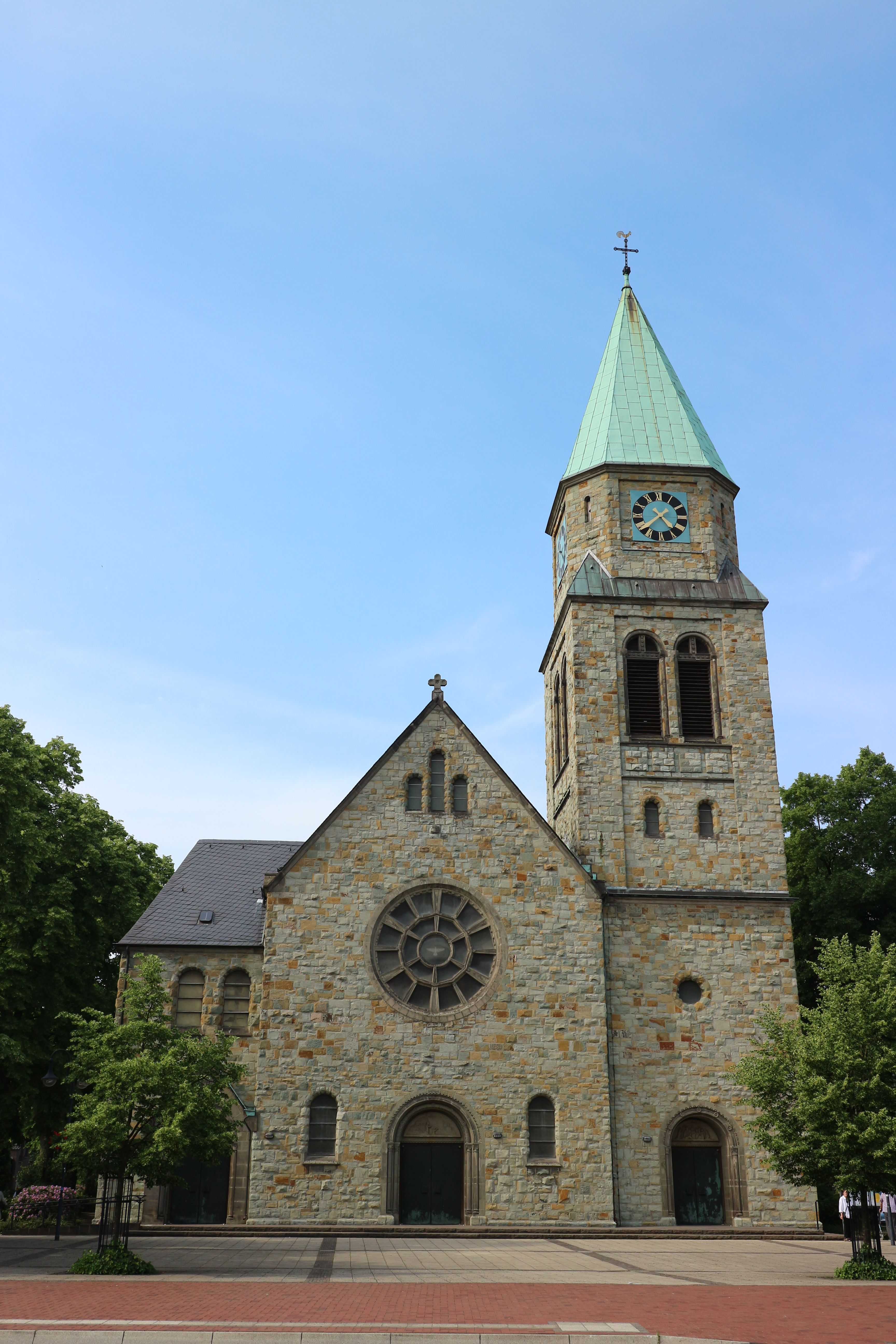 Vorderansicht der Kirche St. Johannes in Bottrop-Kirchhellen, Hauptstraße